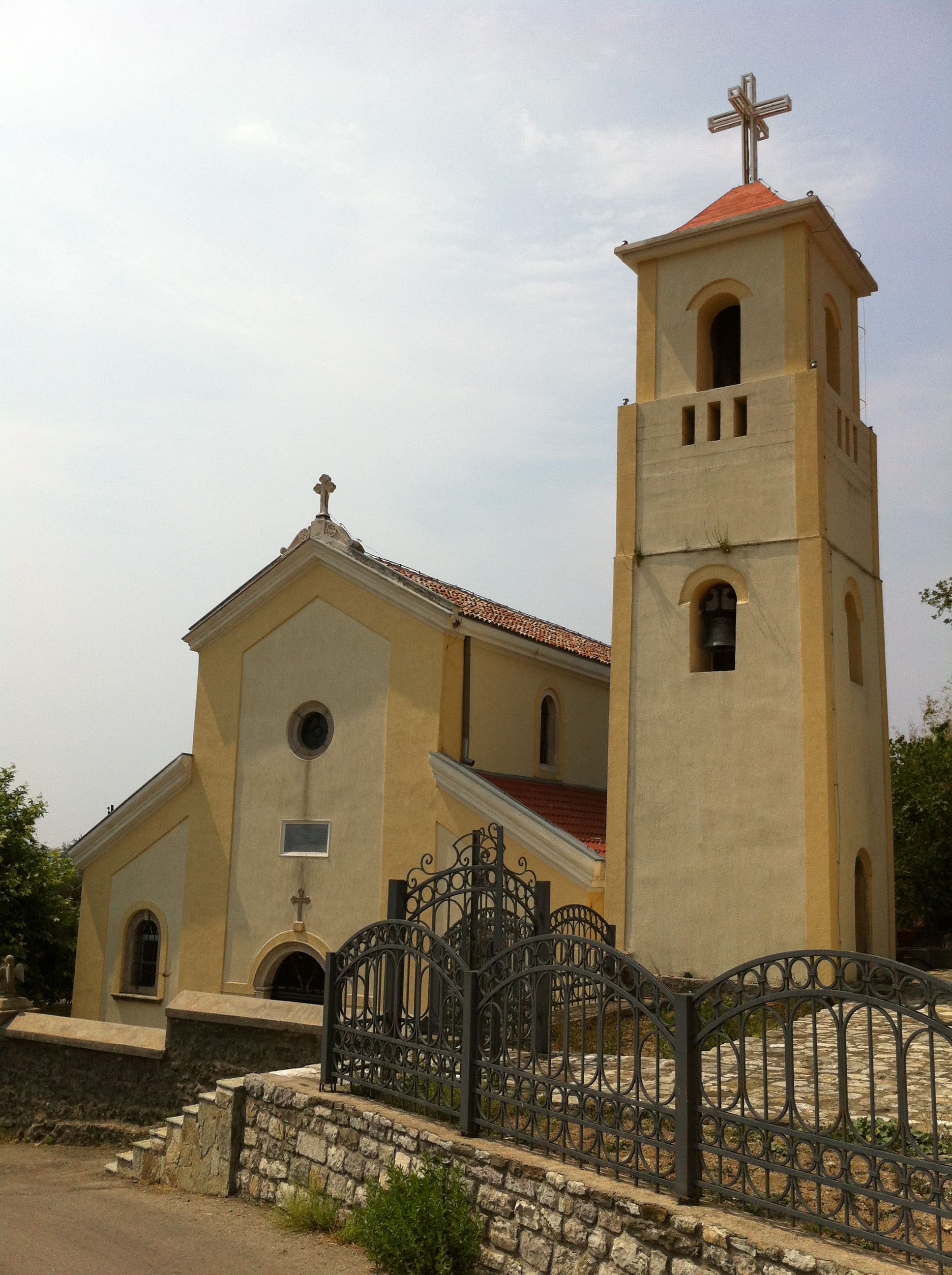 Cathedral of the Immaculate Conception in Bar